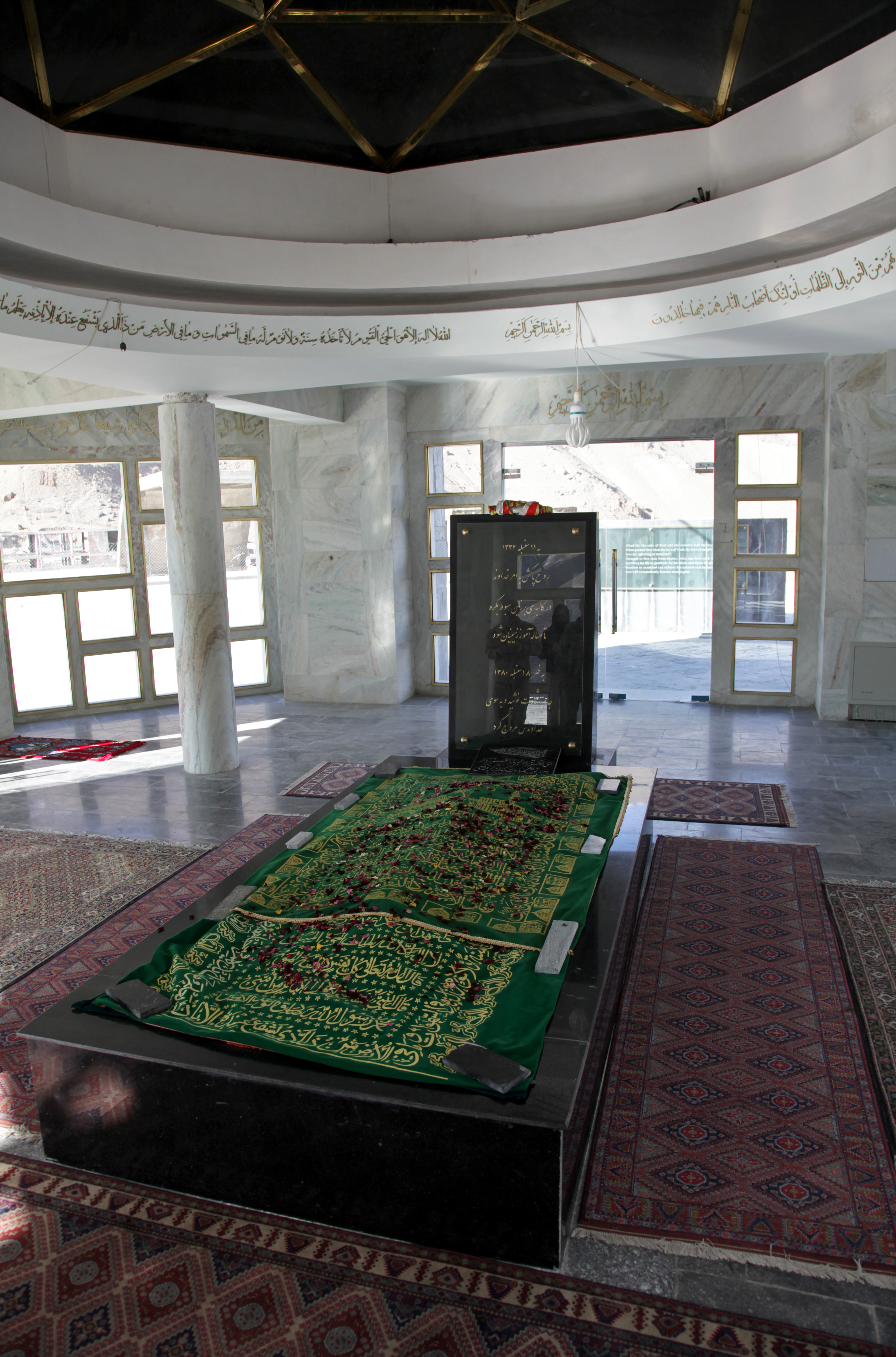 The body of Ahmad Shah Massoud remains inside tomb at his memorial site in the Panjshir Province, Afghanistan, Jan. 5, 2010. Massoud was a local Afghan hero and former leader of the Northern Alliance.